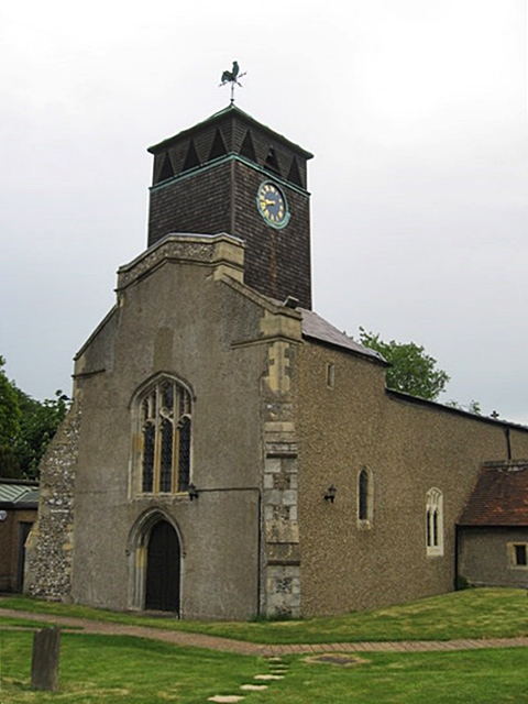 West end of the parish church of SS Peter and Paul, Stokenchurch, Buckinghamshire, seen from the southwest